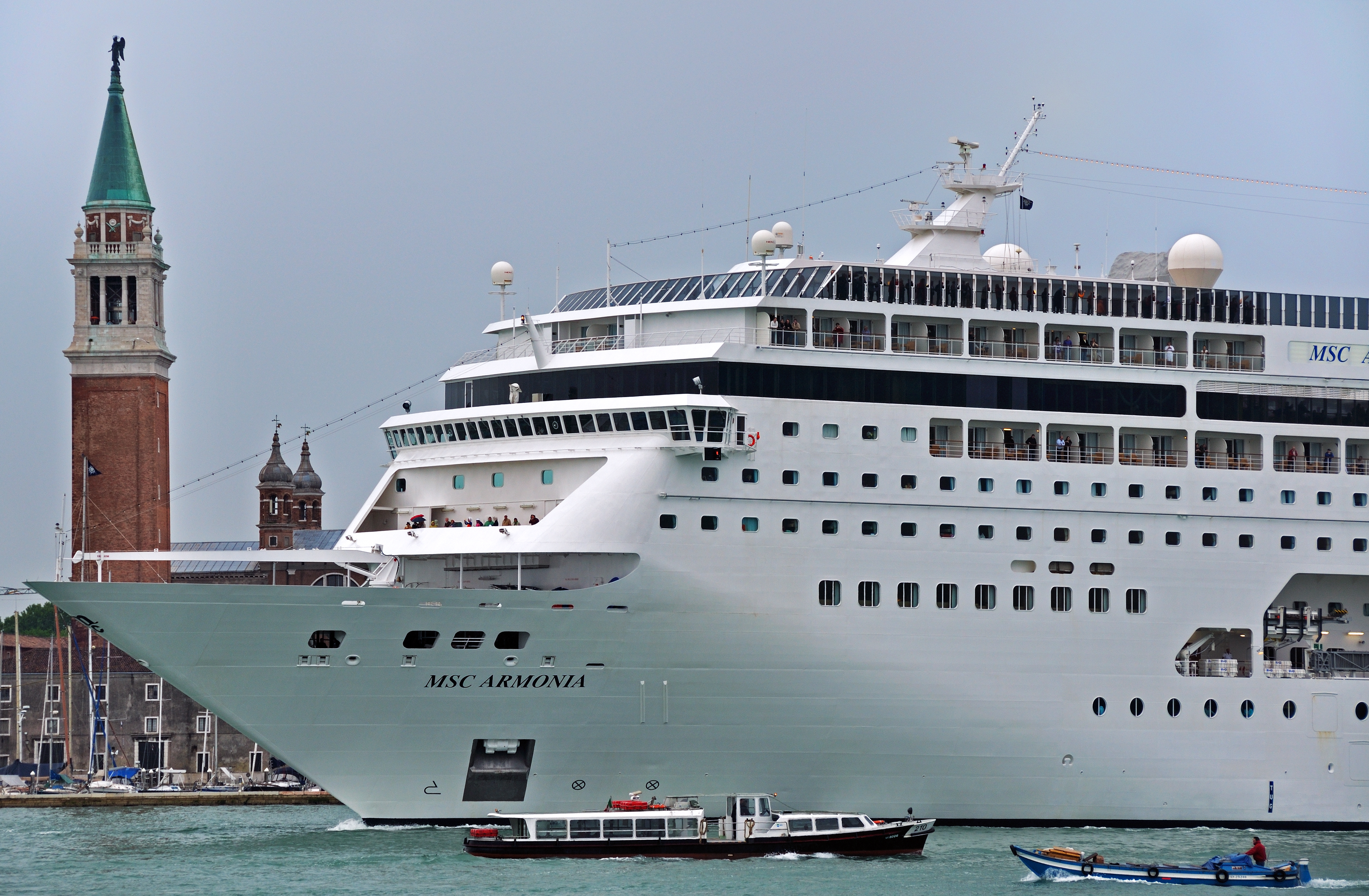 The Grand Canal. Venice, Italy